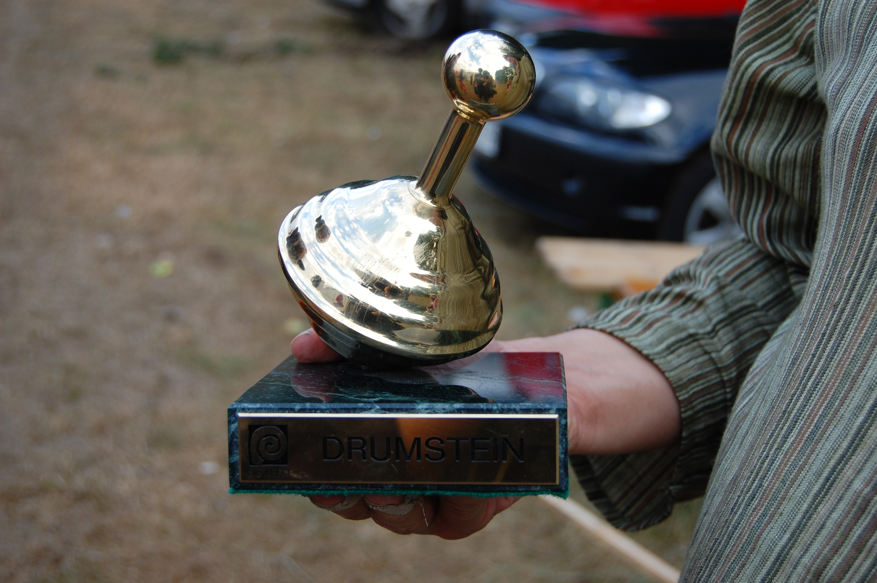 „Złoty Bączek“ music award for the polish folk band Drumstein at the 2008 Przystanek Woodstock festival